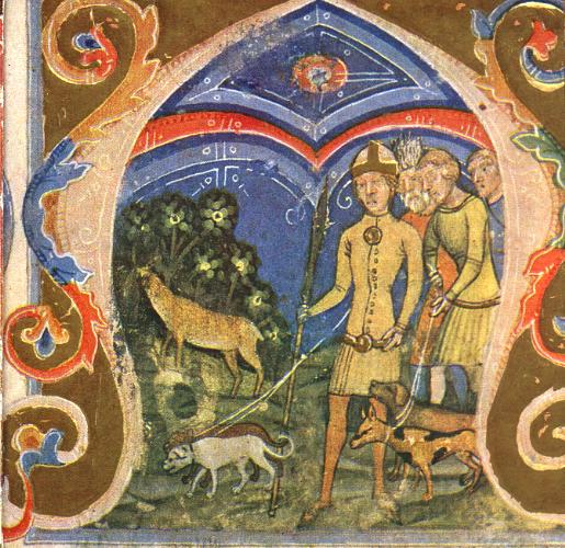 Miniature of the hunt of the White Stag, with Hunor and Magor in the foreground